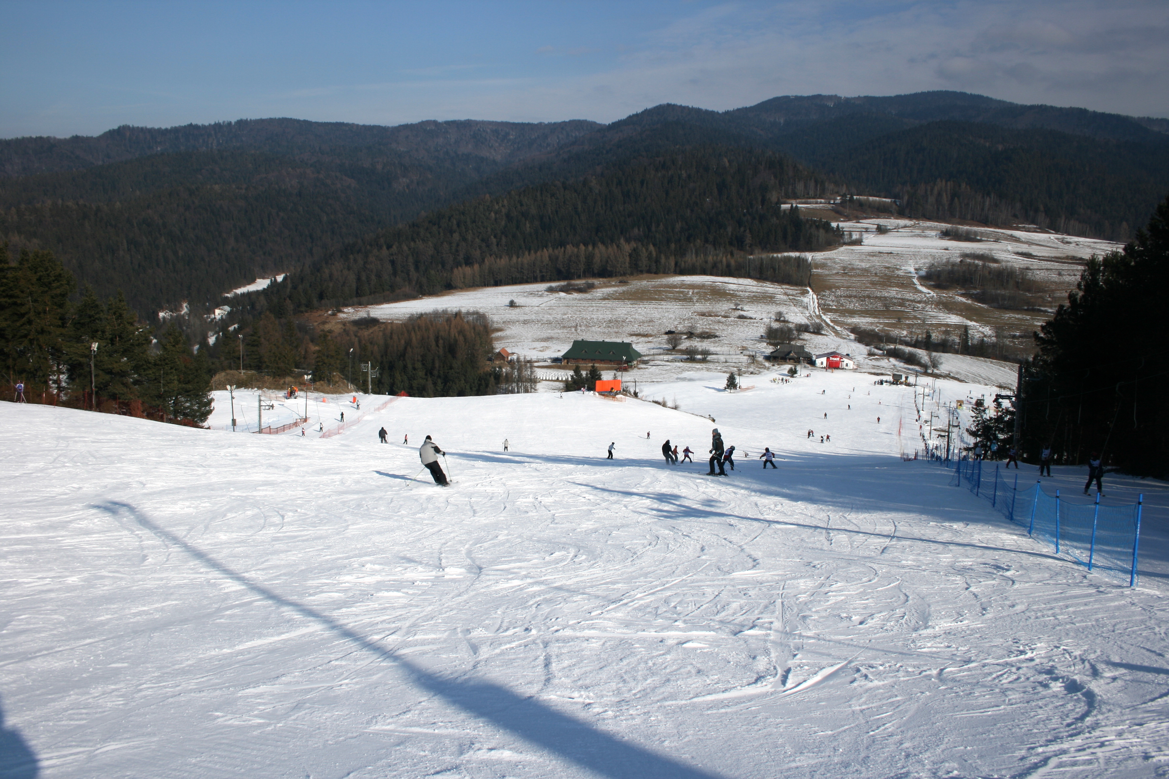 Czorsztyn-Ski ski area - ski trail no 1